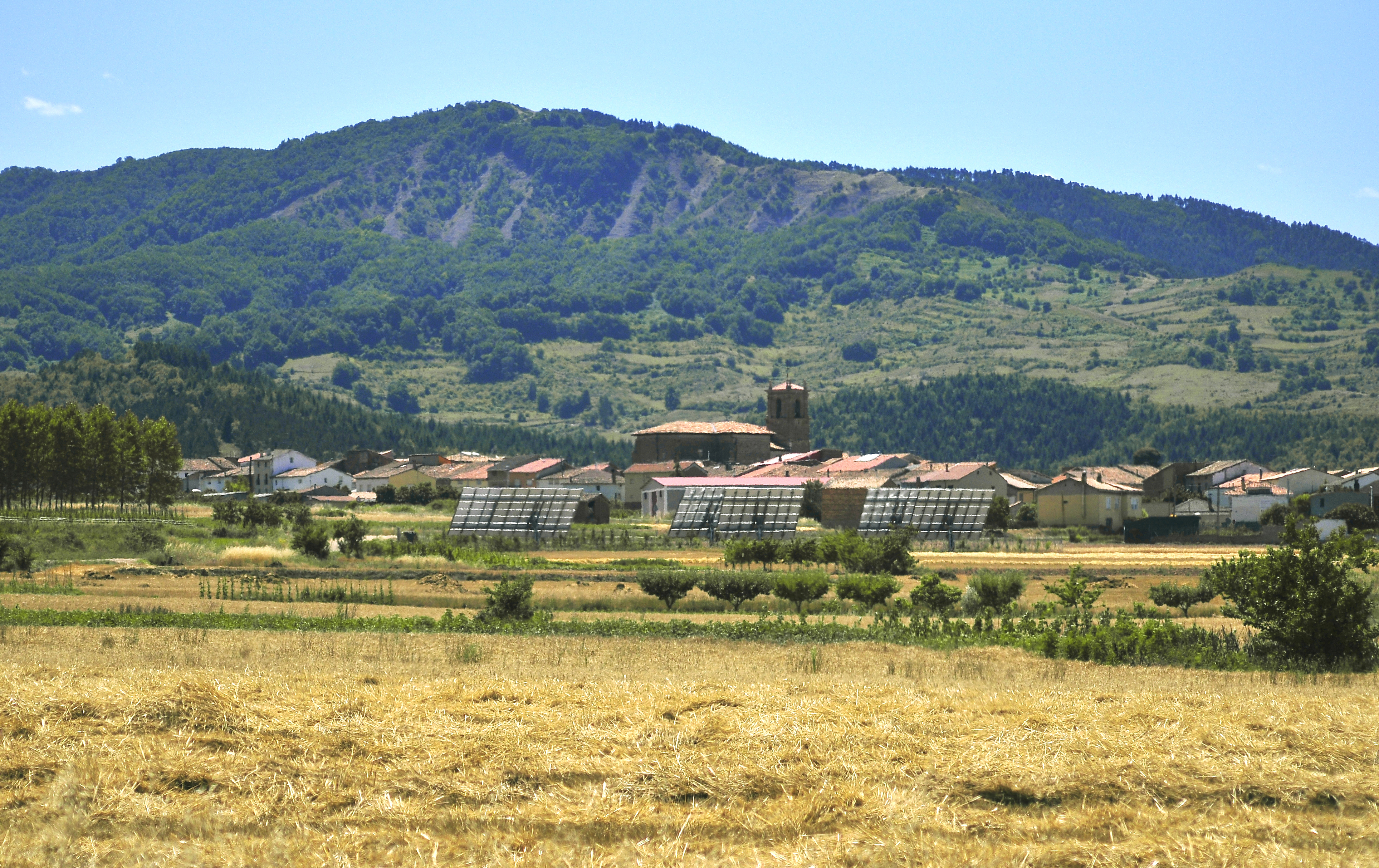 The village and it's surroundings. Santa Coloma, La Rioja, Spain